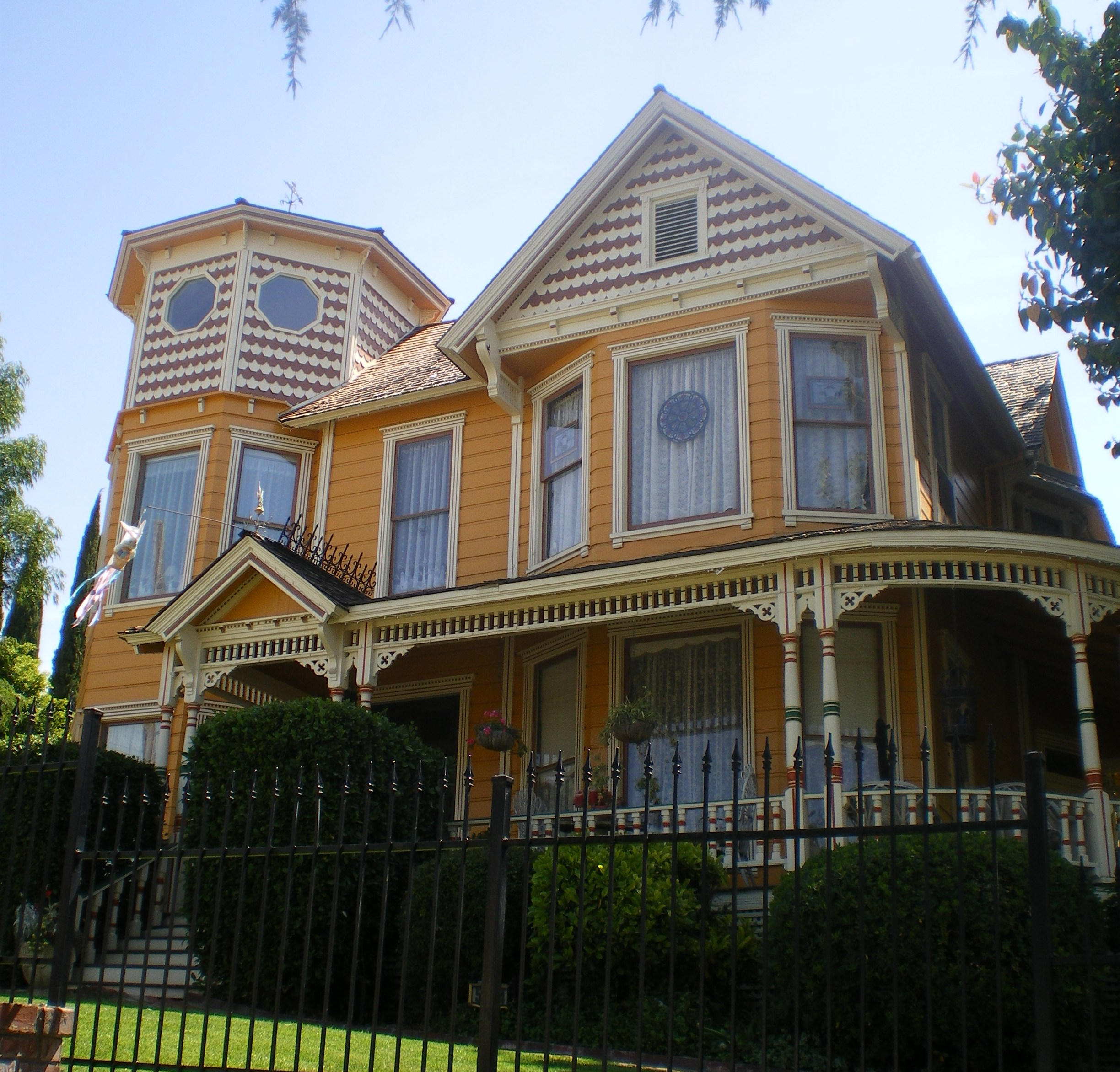 Home of C.W. Harvey, corner of Painter & Beverly, Whittier, California, c. 1888